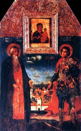 St. Avraamii Smolenskii